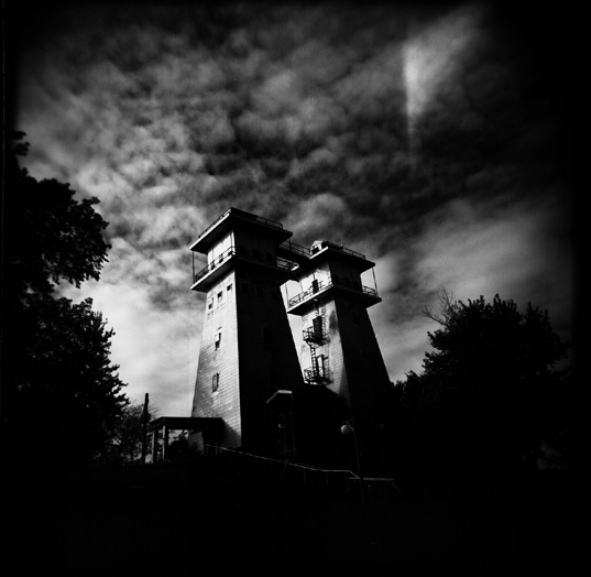 Twin Irish Hills Towers. Located in northern Lenawee County, Michigan in the Irish Hills region. On the National Register of Historic Places.